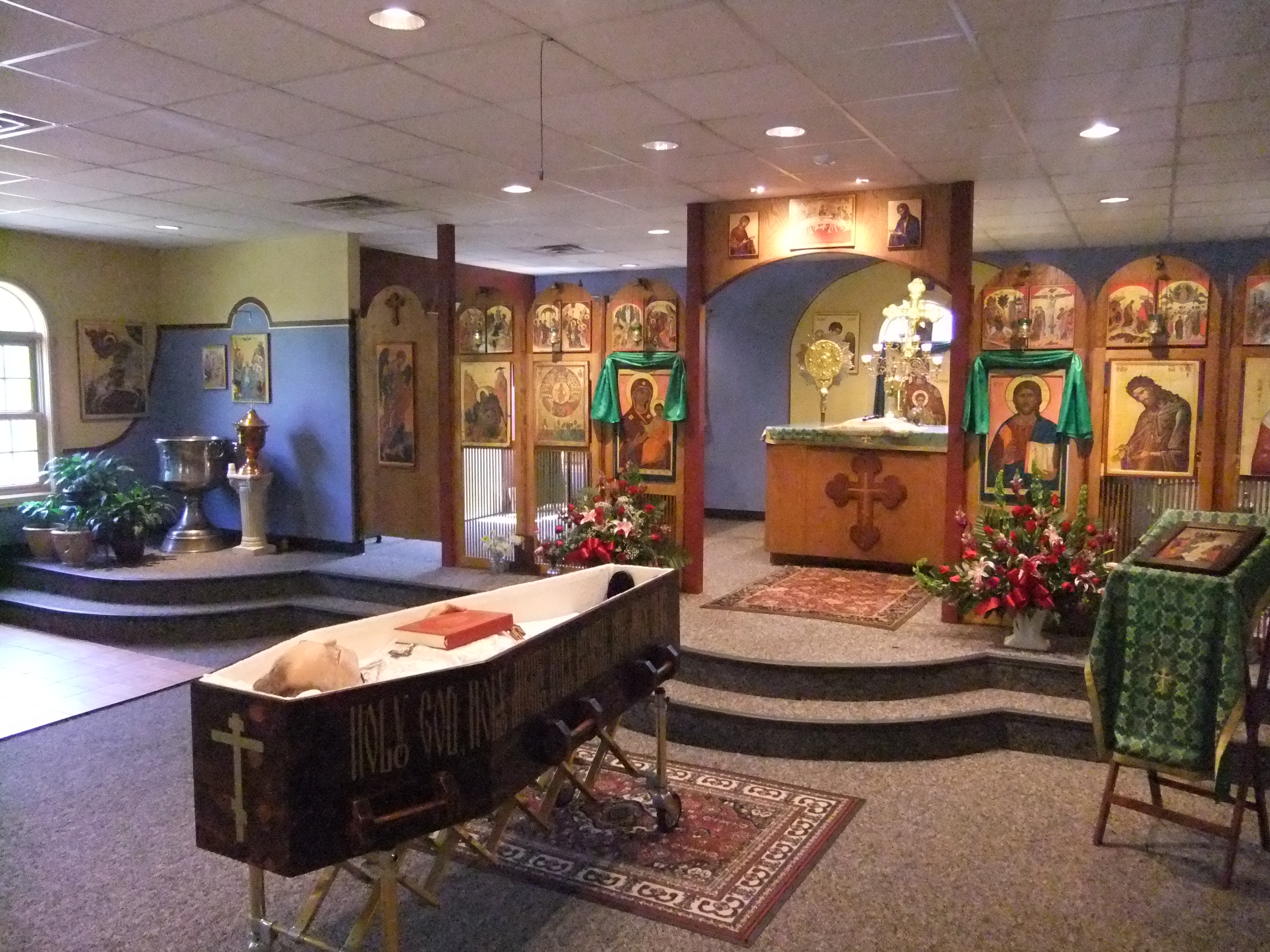 Casket with the body of Archpriest Peter E. Gillquist in the All Saints' Orthodox Church, Bloomington, after a Divine Liturgy on July 5, 2012, the day before his burial.